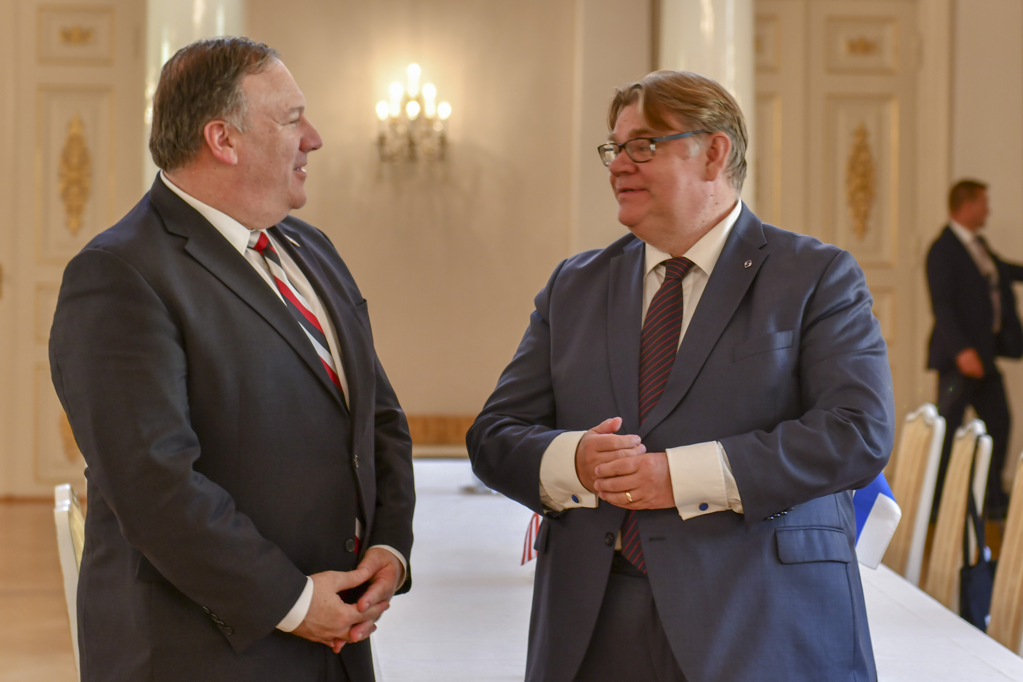 U.S. Secretary of State Michael R. Pompeo meets with Finnish Foreign Minister Timo Soini at the Finnish Presidential Palace, Hall of Mirrors in Helsinki, Finland on July 16, 2018. [State Department photo/ Public Domain]